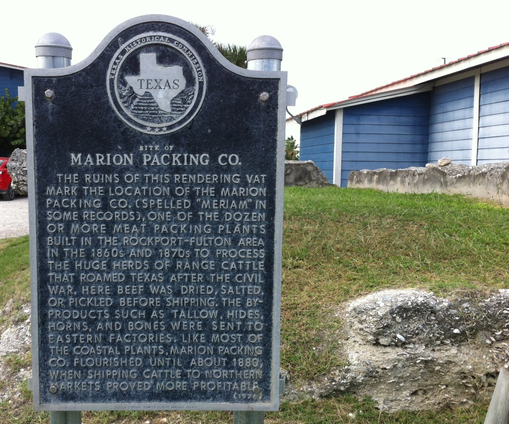 In Fulton Texas, a sign marking the site of old meatpacking plant. There had been many slaughterhouses in this town, this is only remaining foundation.